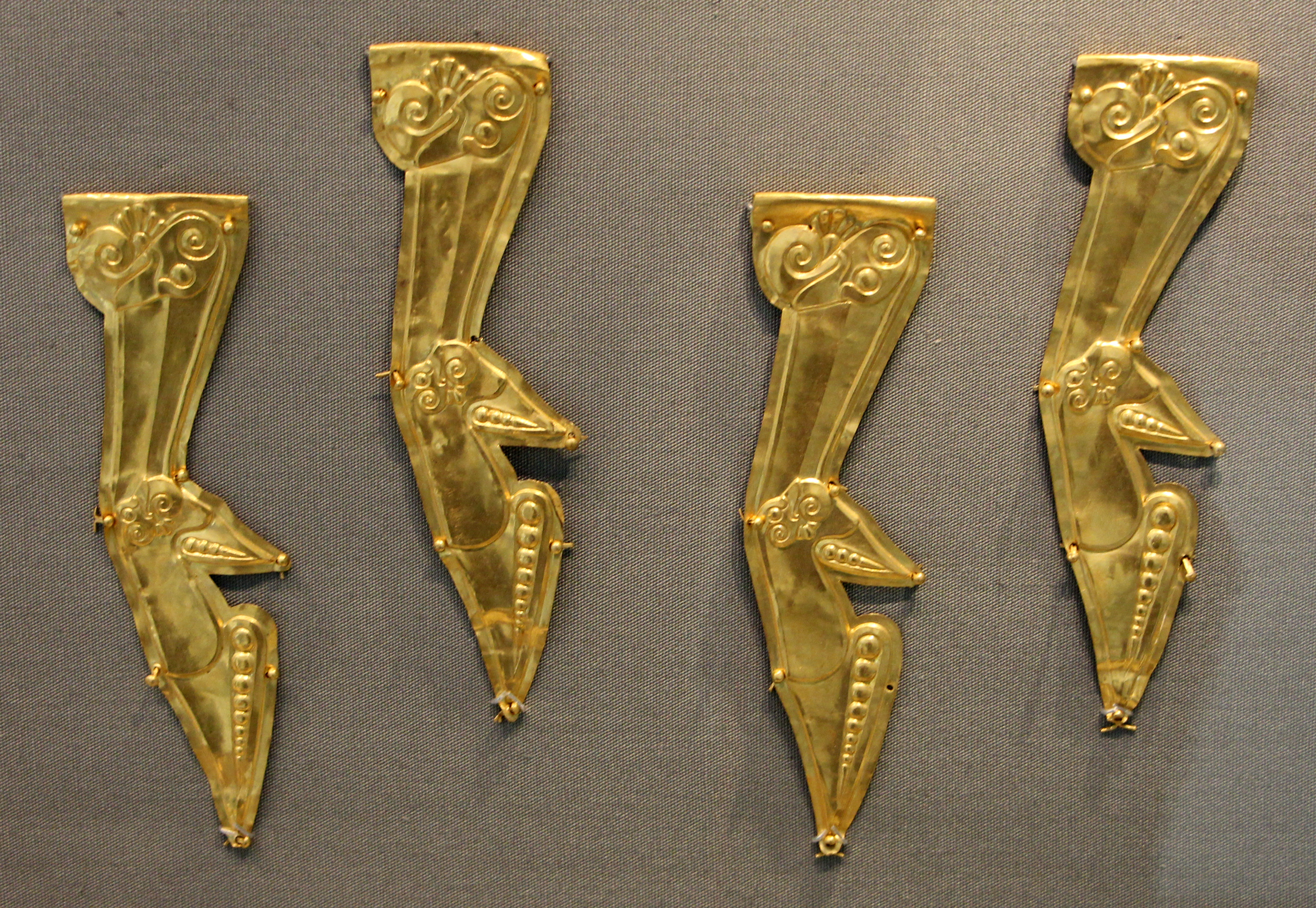 Ancient Greek jewellery in the Antikensammlung Berlin